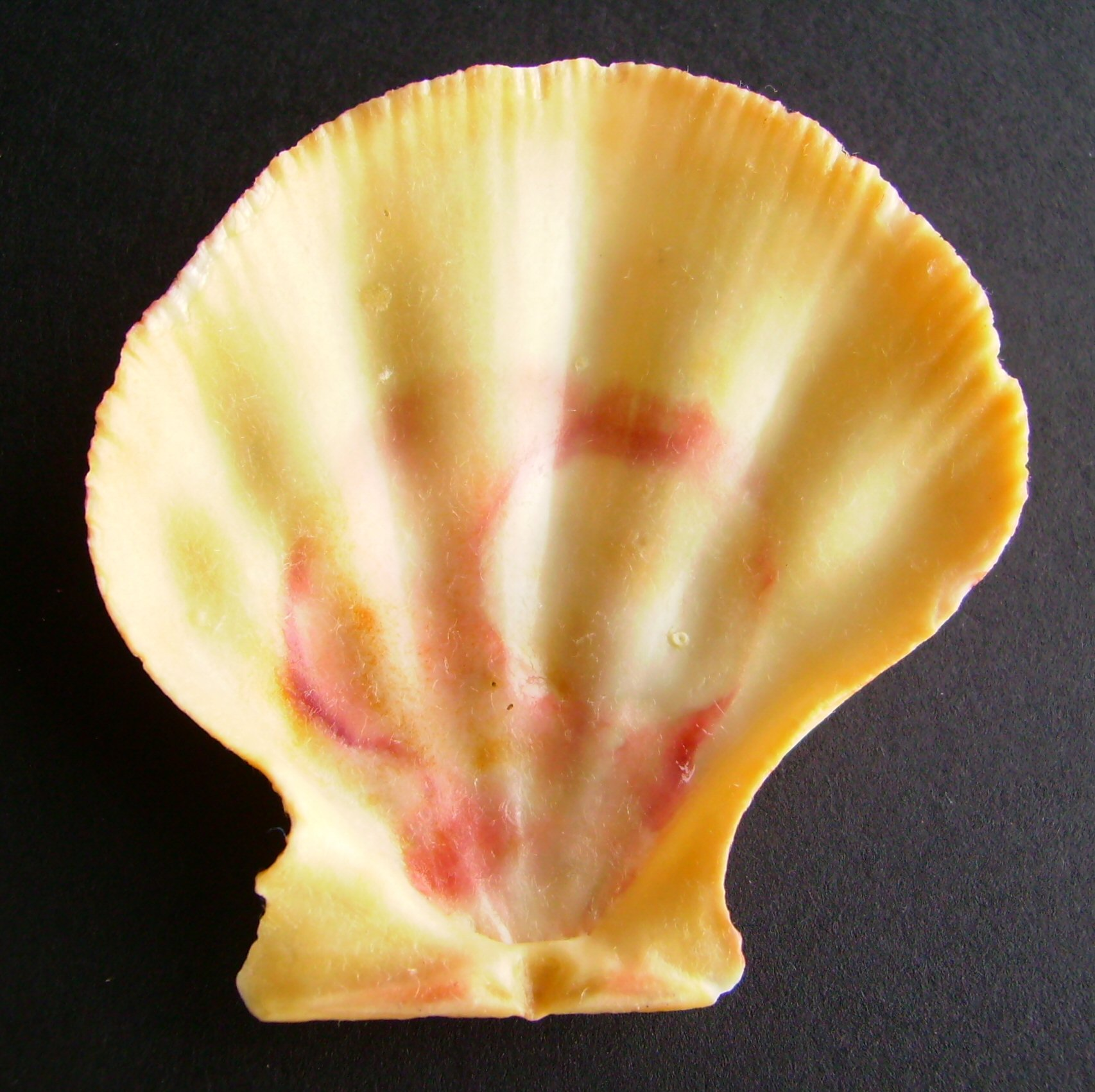 Mesopeplum convexum (inside) dredged from north of Pakiri, Auckland, New Zealand. This work has been released into the public domain by its author, Graham Bould. This applies worldwide. In some countries this may not be legally possible; if so: Graham Bould grants anyone the right to use this work for any purpose, without any conditions, unless such conditions are required by law.